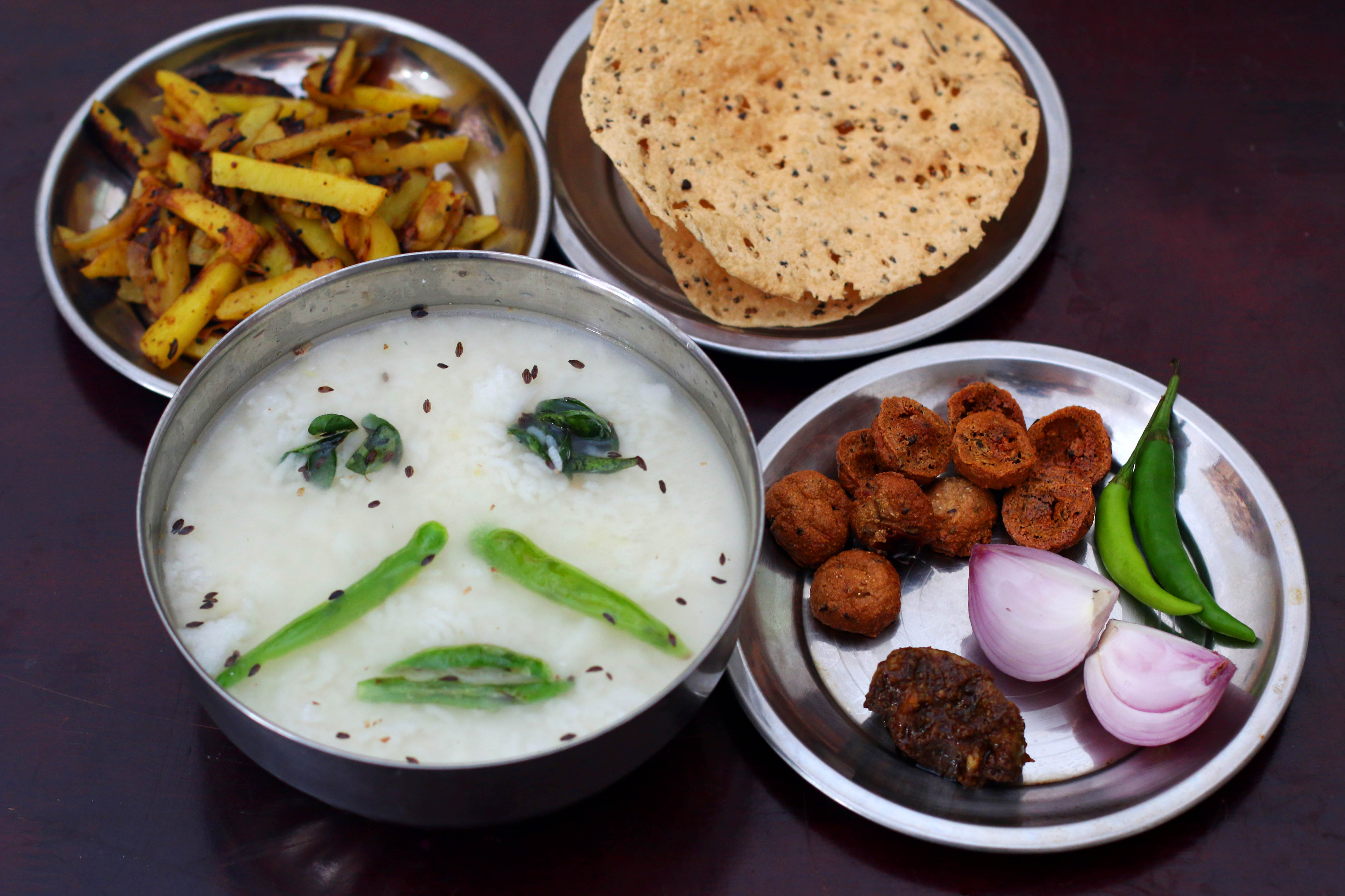 Pakhala bhat or Rice water, is a traditional dish especially cooked in the eastern states of India such as Odisha, West bengal, Assam, Chhattisgarh. This dish prepared with boiled rice, water, Curd, cumin seeds, curry leaves or mint leaves. Most of the time taken along with fish fry or roasted potato, brinjal or spinach fry.